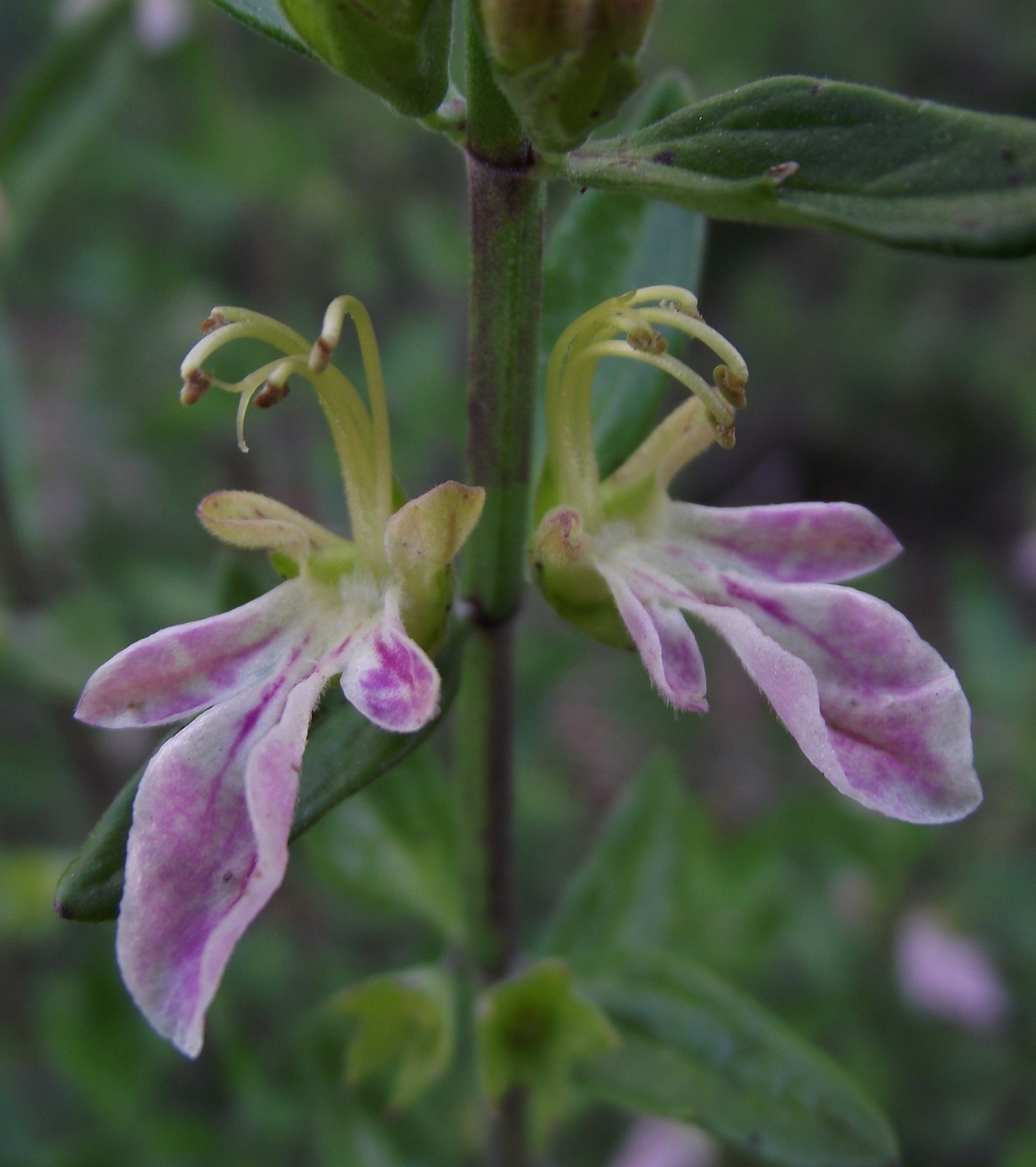 Teucrium bicolor in the UC Botanical Garden, Berkeley, California, USA. Identified by sign.